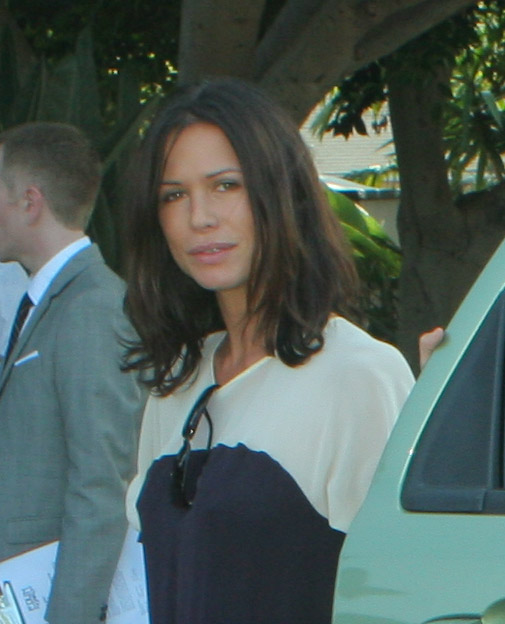 British actress Rhona Mitra at the Ford and project7ten Sustainable/Green Home opening party. Photo released by the Ford Motor Company.